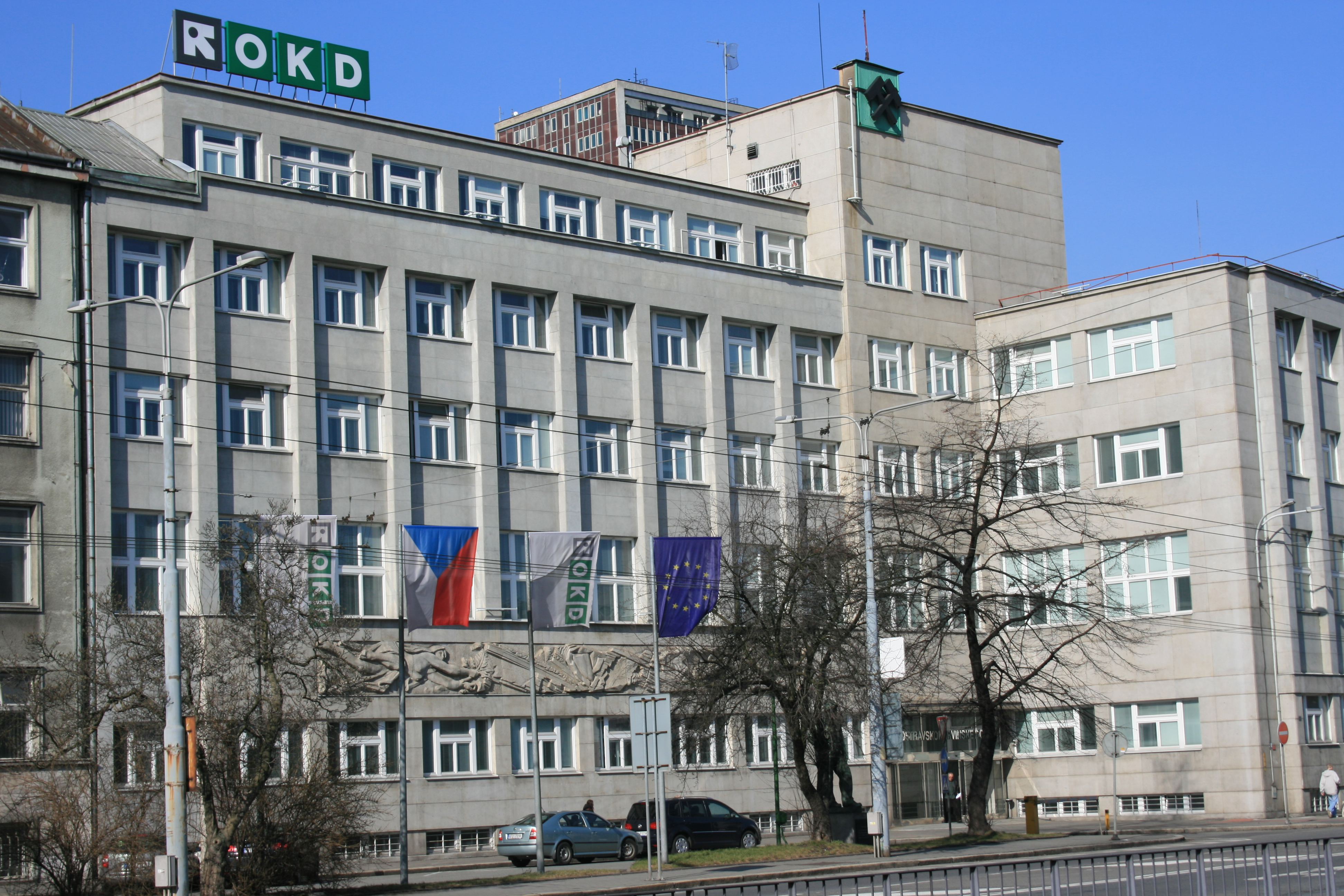 General Mangament OKD - Ostrava